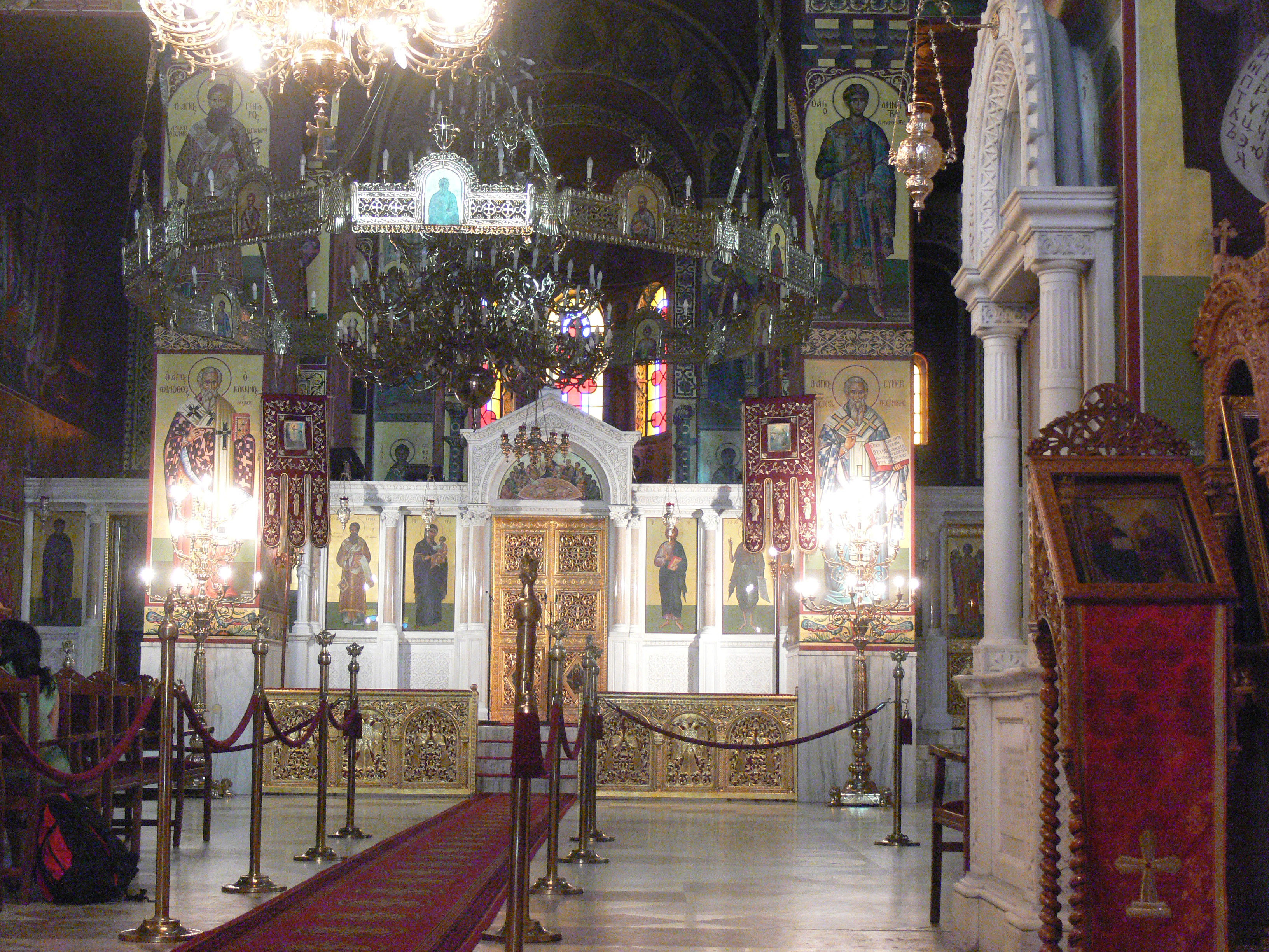 The Church of Saint Gregory Palamas, Metropolitan Church of the Orthodox